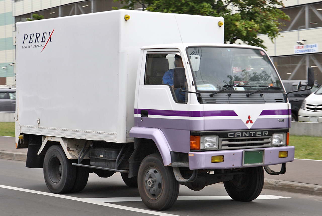 5th generation Fuso Canter 4WD